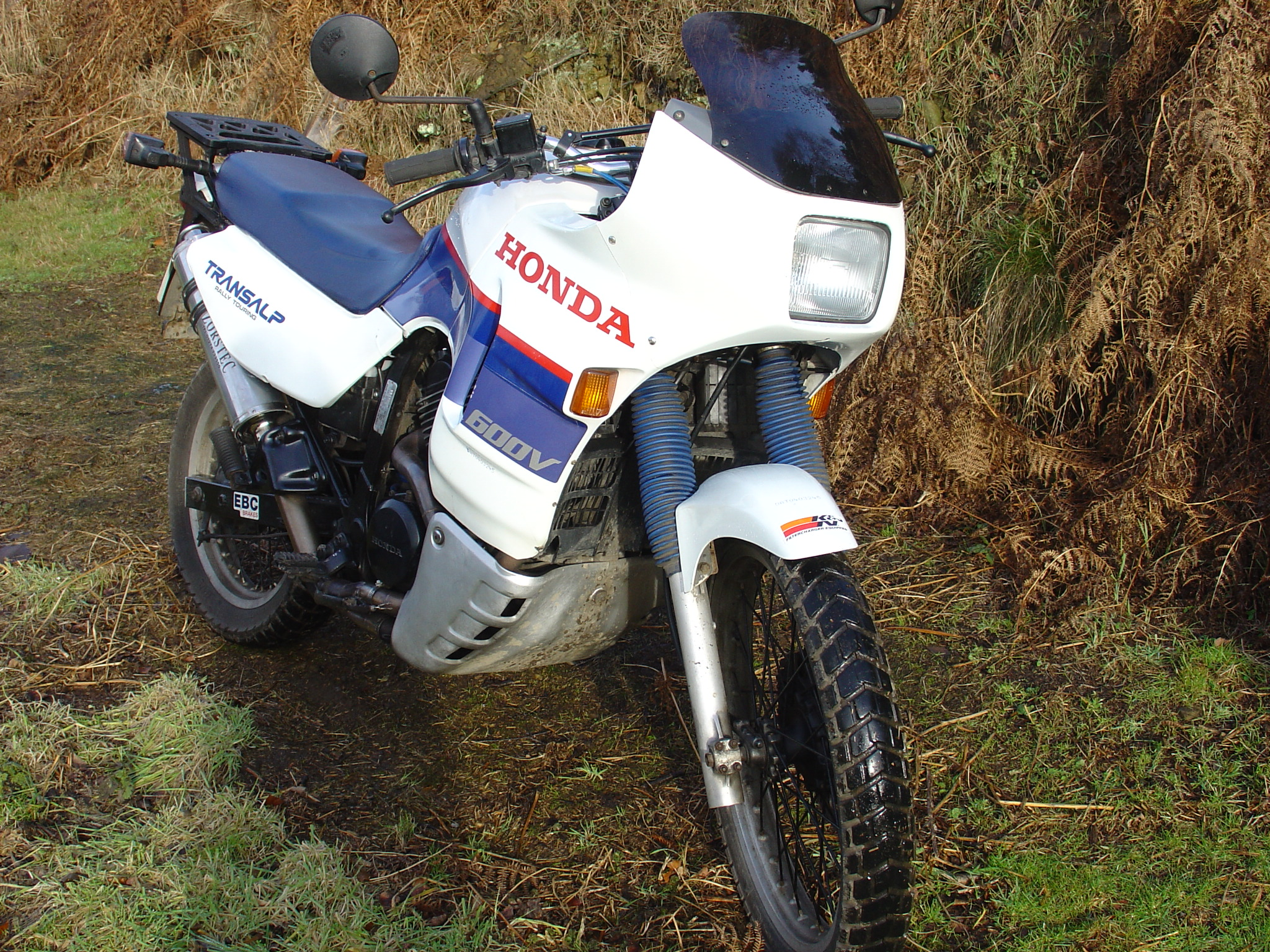 this was medium 'orrible, only lasted a few weeks with it Honda Transalp